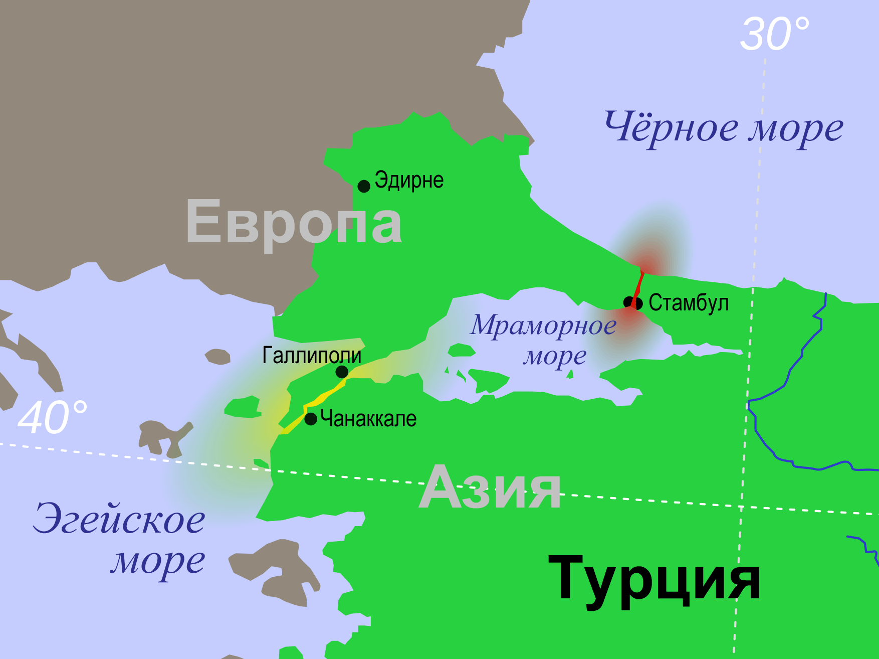 Disambiguation for Turkish Straits.